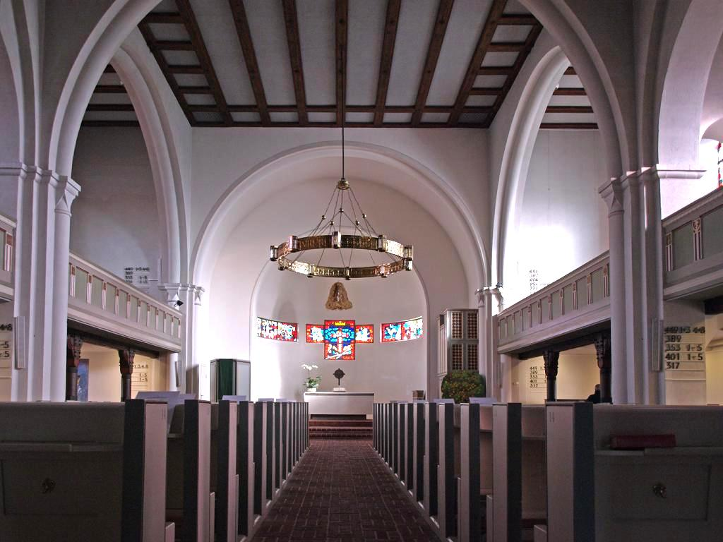 Westerland (Sylt), Slesvic-Holstein (Germany): church St. Nicolai,interior, photo 2008